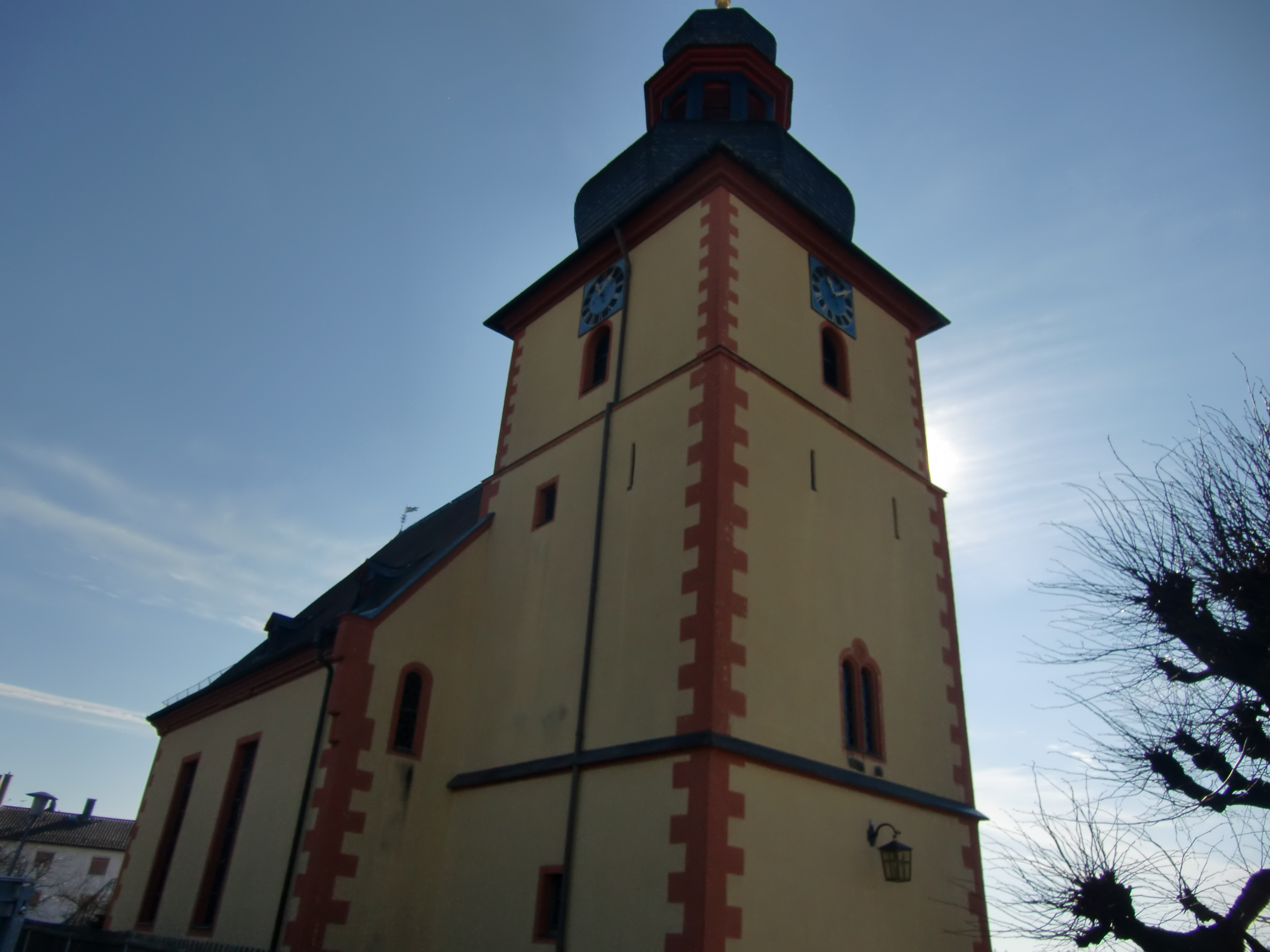 This is a photo of the Lutheran church in Vielbrunn, Hesse, Germany.